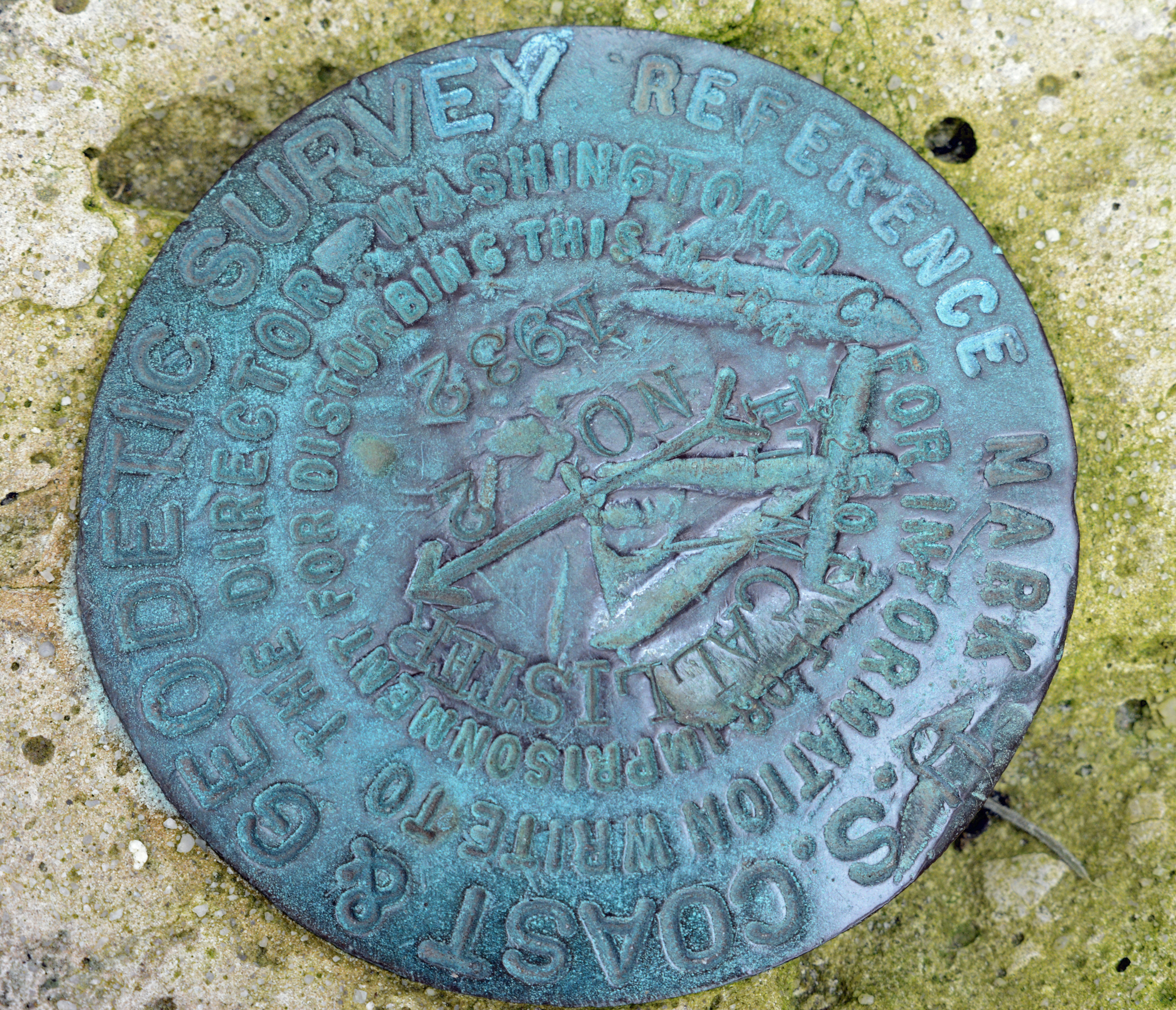 USC&GS marker at Fort McAllister, Georgia, USFrom outside ring inward:U.S. COAST & GEODETIC SURVEY REFERENCE MARKFOR INFORMATION WRITE TO THE DIRECTOR WASHINGTON D.C.$250 FINE OR IMPRISONMENT FOR DISTURBING THIS MARKFT MCALLISTER 1932NO 2